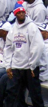 Plaxico Burress at the Giants Rally after victory in Super Bowl XLII.